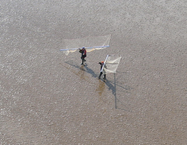 Haaf Net Fishermen, Solway Estuary, near to Bowness-on-Solway, Cumbria, Great Britain. Traditional method for fishing for salmon and sea trout, dating back to the Vikings. Link